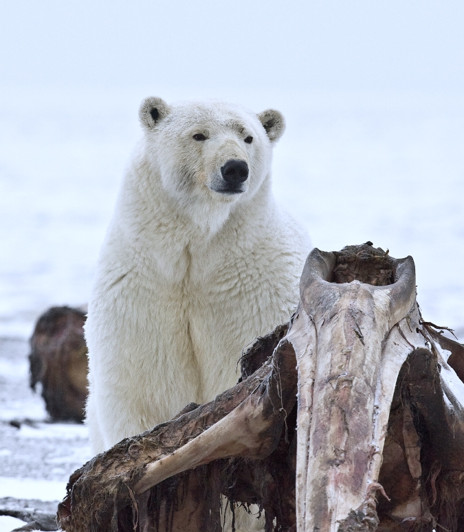 Polar Bear (Sow), Arctic National Wildlife Refuge, Alaska